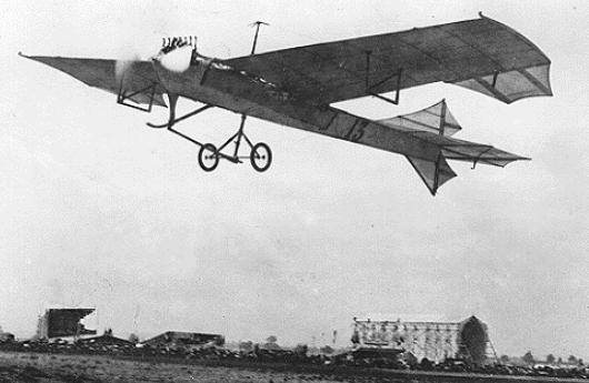 Antoinette IV